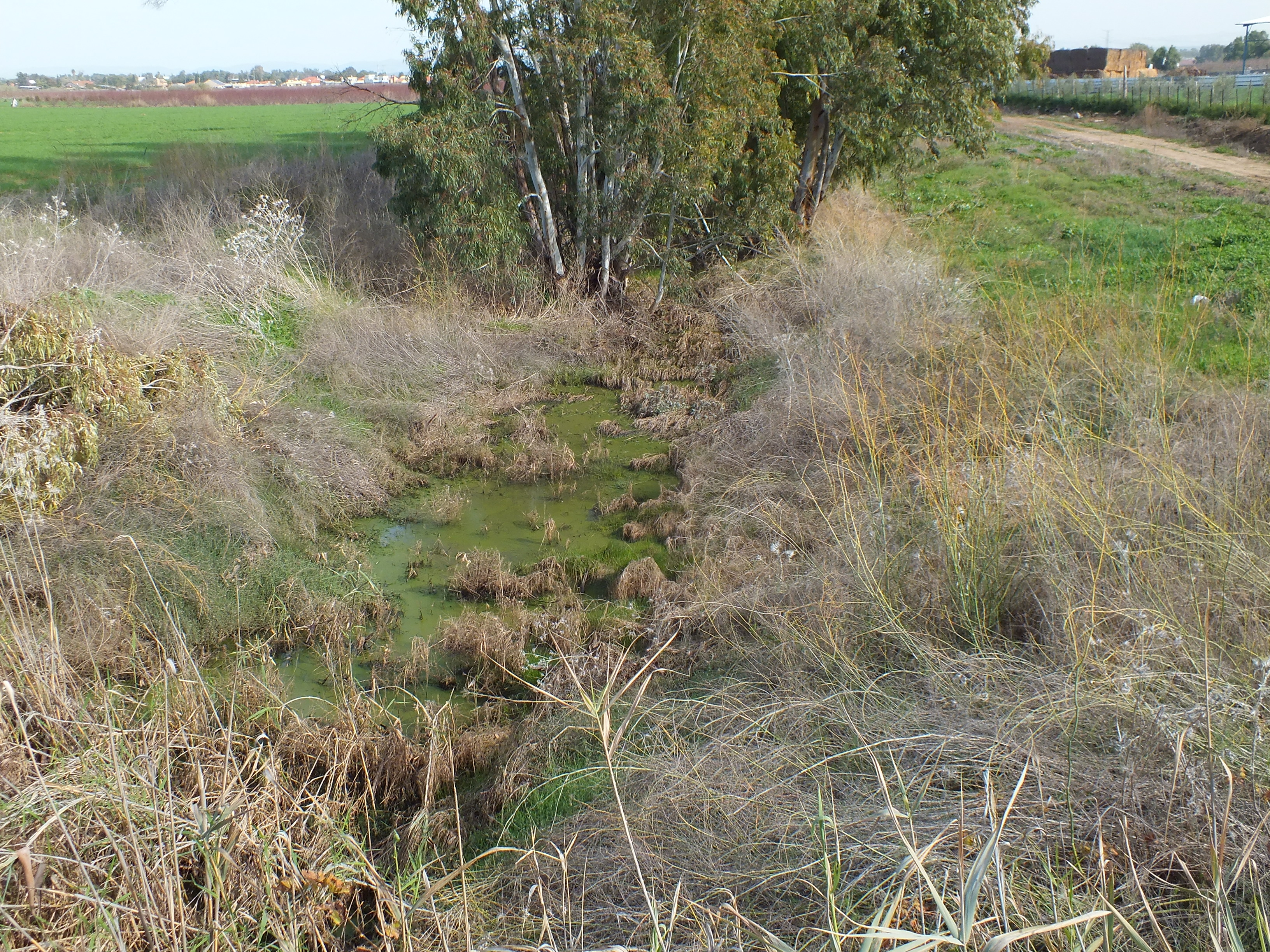 Guvrin Stream is the principal tributary of the Lachish River flowing in the west-centre of Israel.